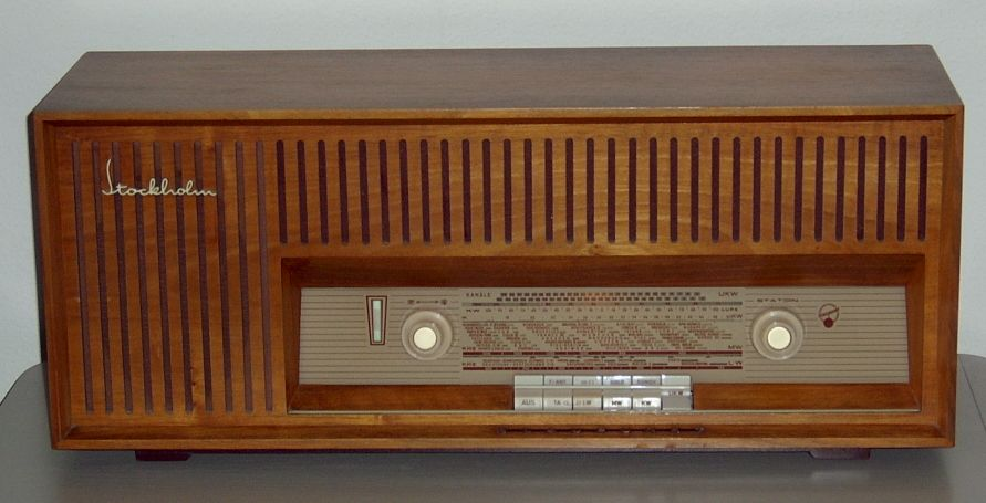 The Blaupunkt Stockholm desktop tube radio was produced in 1961-1967 (according to ) in various versions, all sharing the same straight-line exterior cabinet.